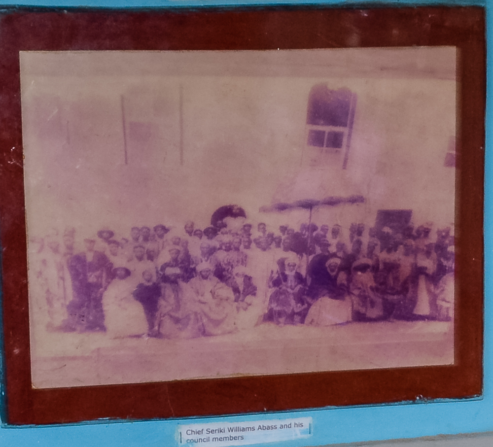 Images of Seriki Abass